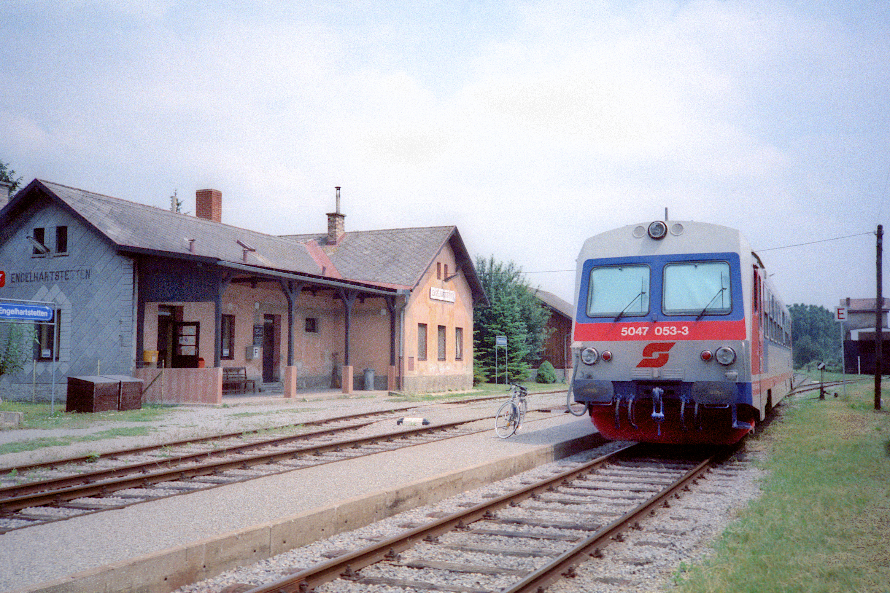 DMU ÖBB 5047.053 at Engelhartstetten, terminus of the branchline from Siebenbrunn-Leopoldsdorf